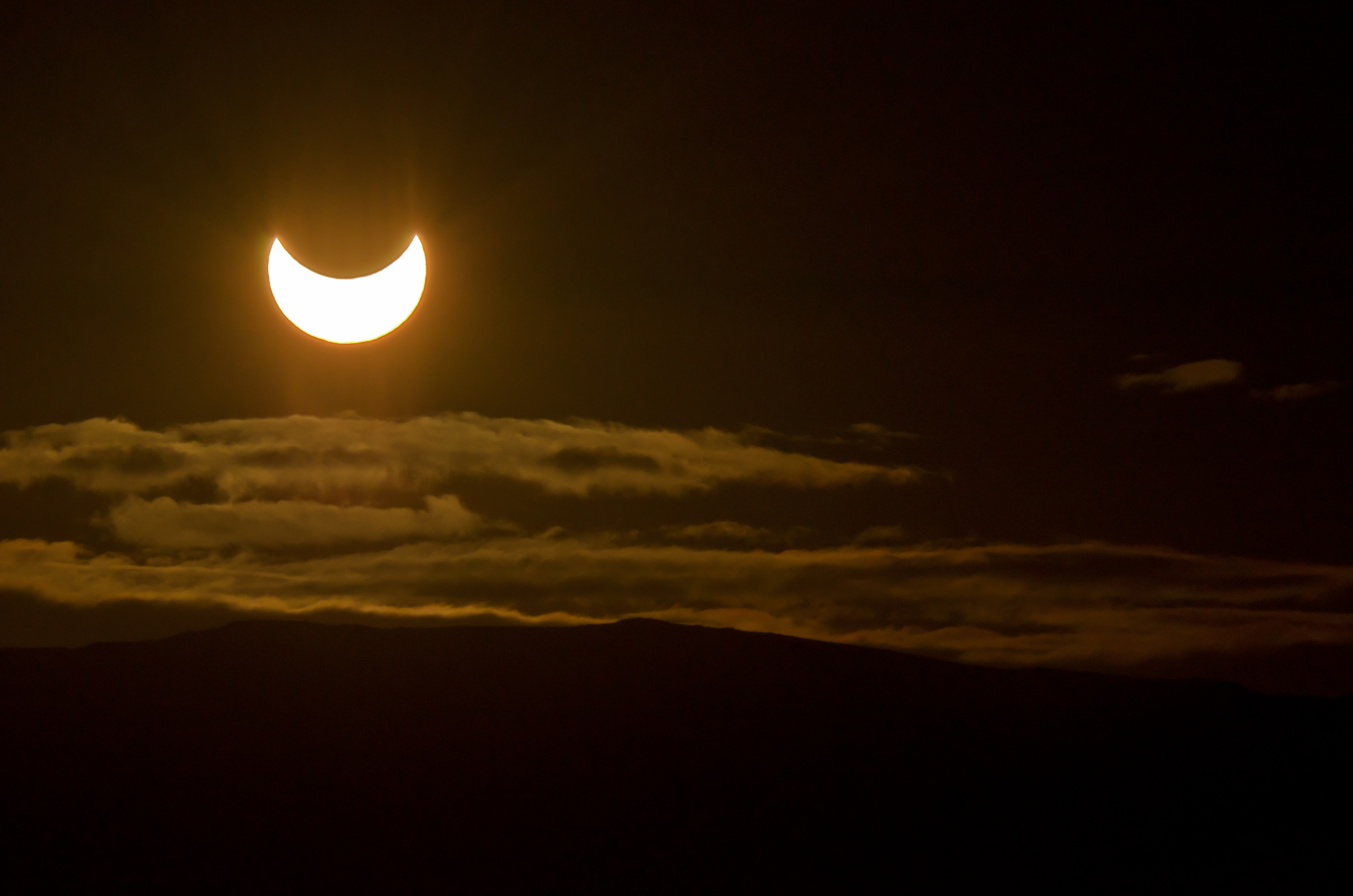 Tuesday 31st May 2011 there was a partial solar eclipse of the midnight sun at far northern latitudes. This shot was taken in Tromsø, Norway.